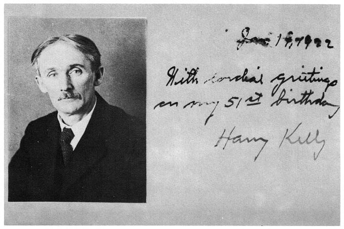 A postcard written by Harry Kelly on the occasion of his 51st birthday, dated 1922-06-14. The written message reads "With cordial greetings on my 51st birthday" and is signed "Harry Kelly". The intended recipient is unknown to the uploader.